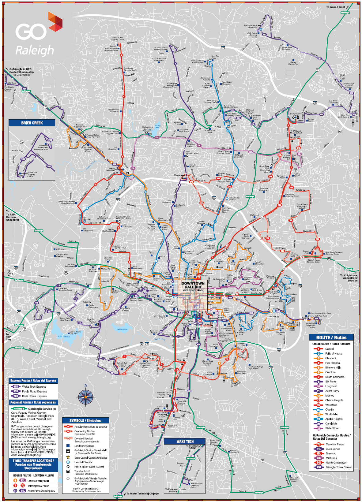 GoRaleigh System Map, August 2017.